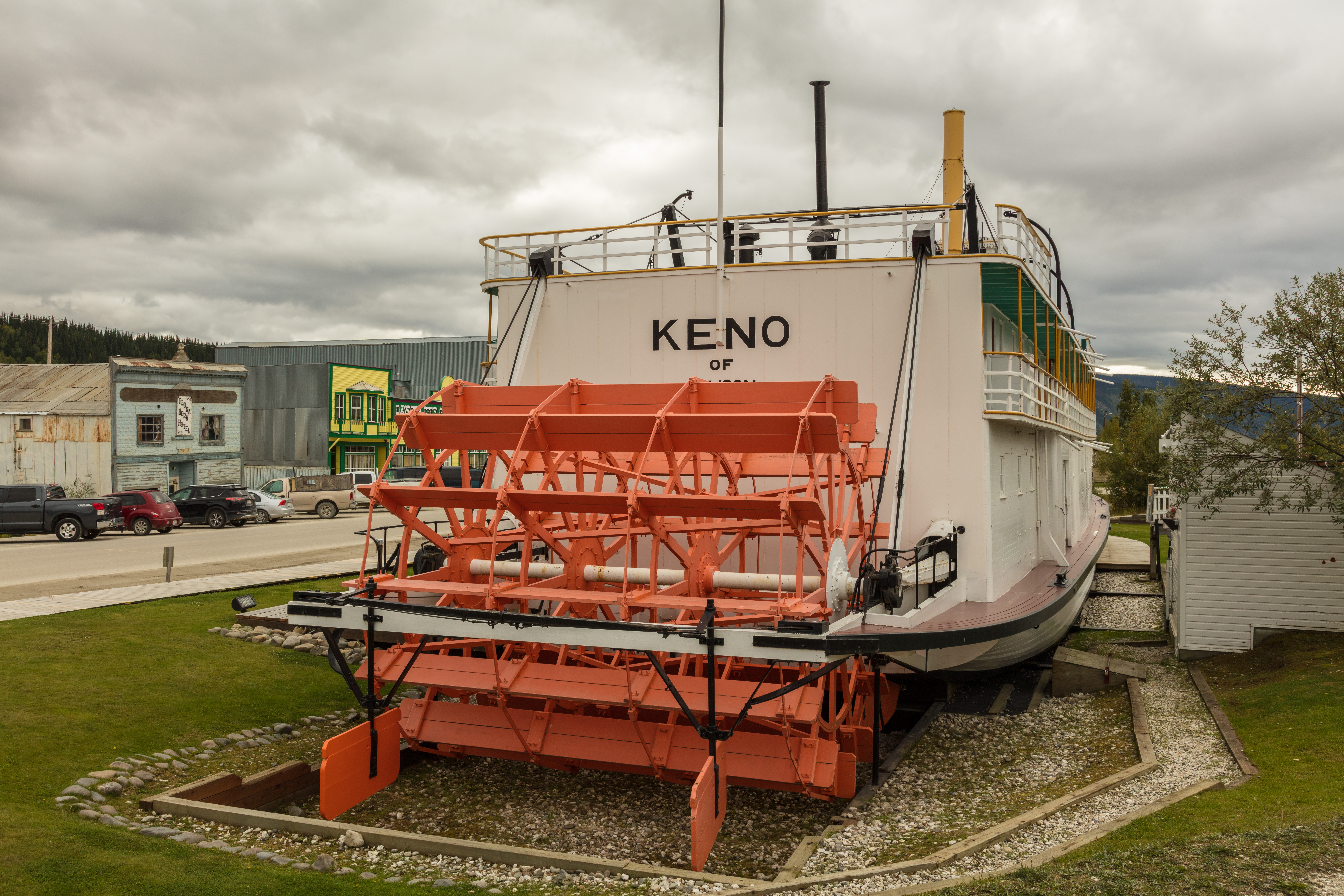 Keno Historic Ship, Dawson City, Yukon, Canada